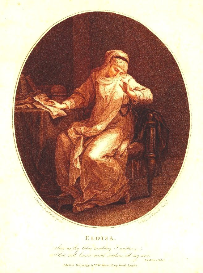 Eloisa reads Abelard's letter: a 1779 print of Angelica Kauffmann’s painting made by William Wynne Ryland.